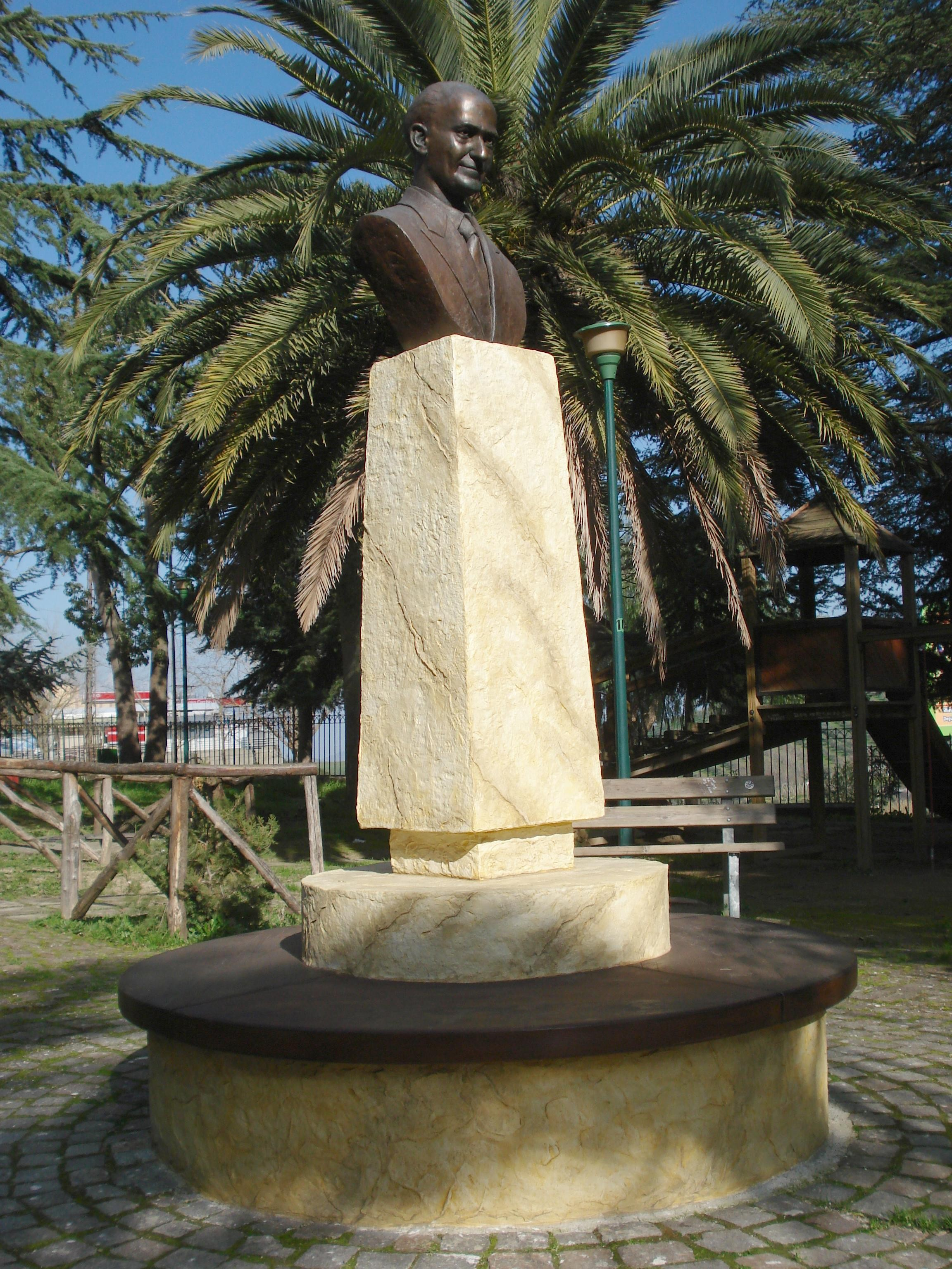 monumento a Gioacchino Germanà